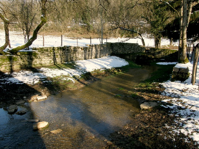 The spring of Jugnon River